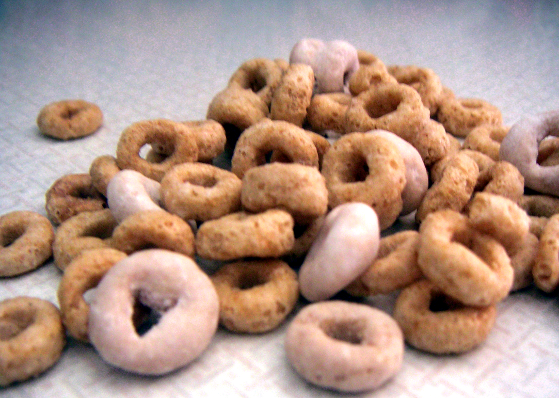 Yogurt Burst Cheerios.